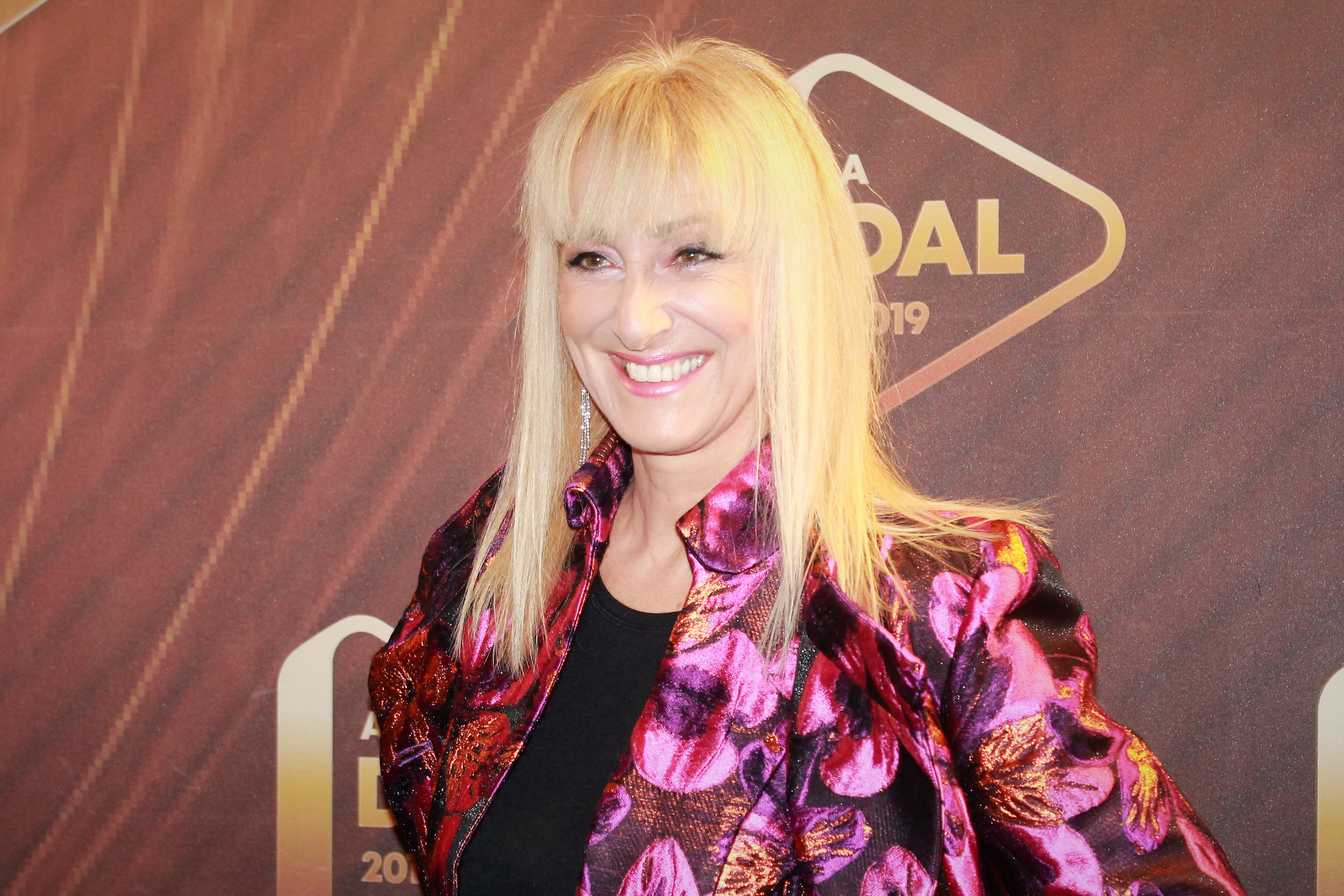 Lilla Vincze, one of the jurors of A Dal 2019